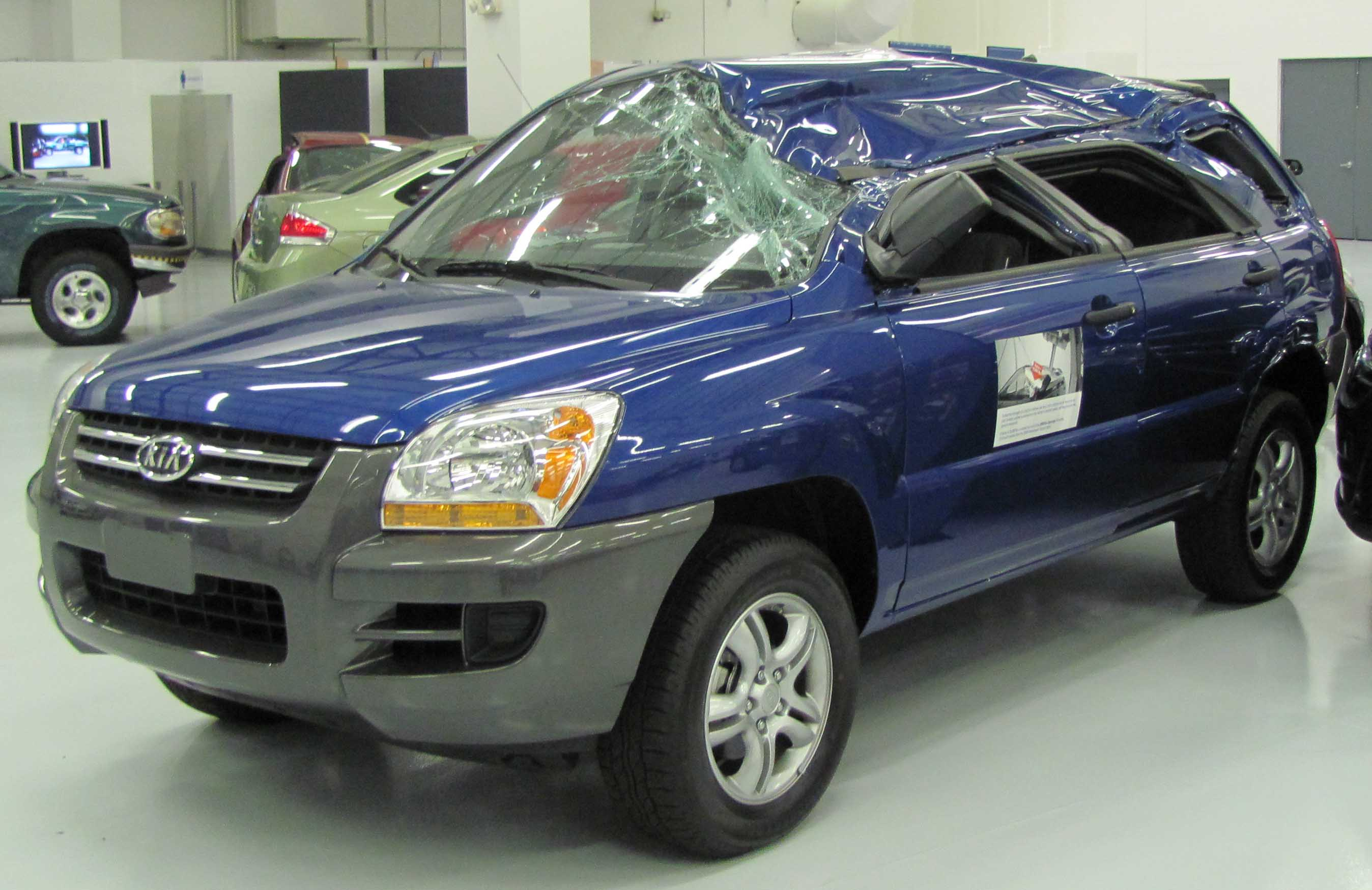 Crash-tested 2008 Kia Sportage photographed at the Insurance Institute for Highway Safety Vehicle Research Center. IIHS crash test page